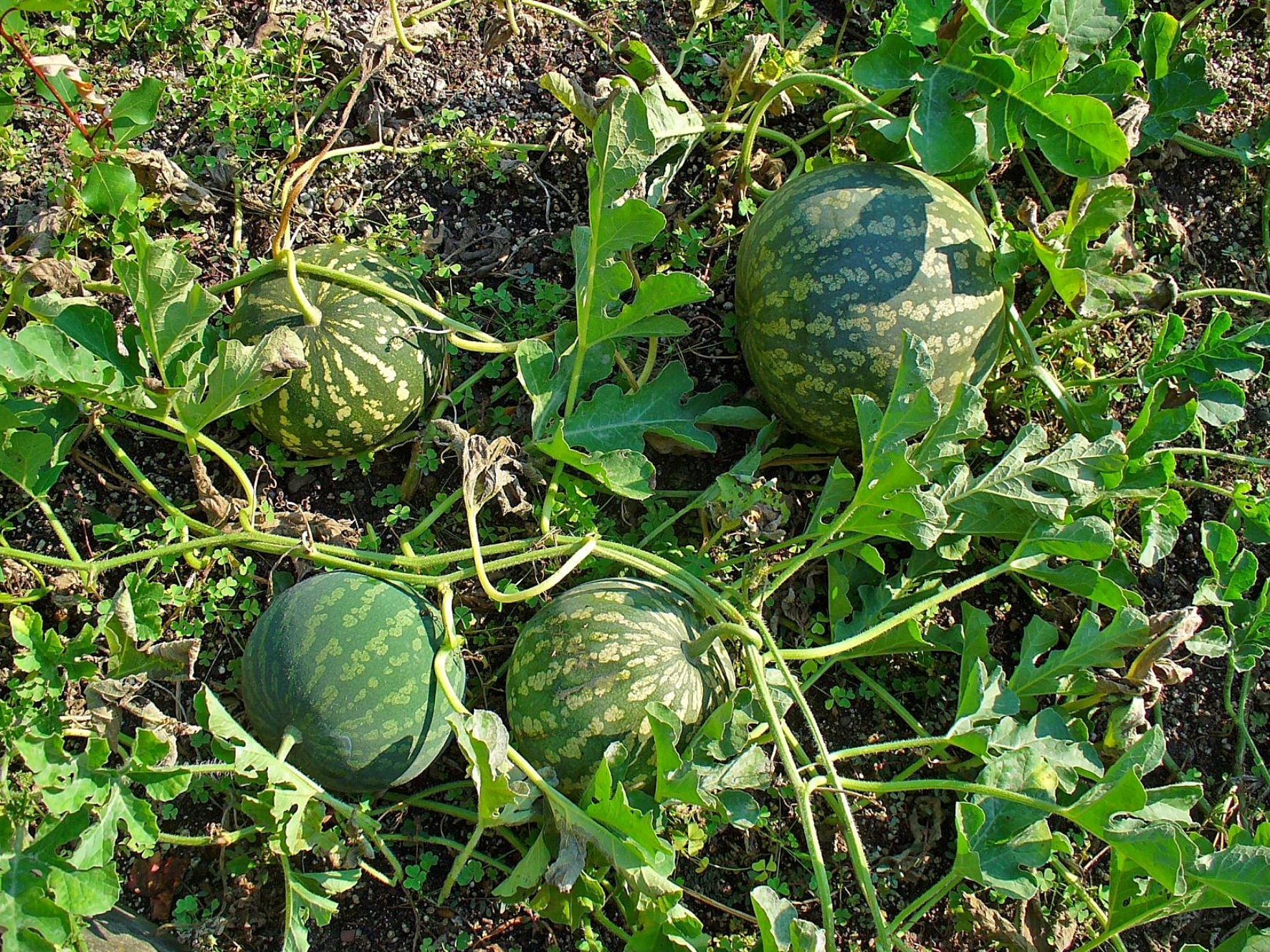 Citrullus colocynthis, Cucurbitaceae, Colocynth, Bitter Apple, Bitter Cucumber, Egusi, Vine of Sodom, fruits; Botanical Garden KIT, Karlsruhe, Germany. The ripe, hulled, seeded fruits are used in homeopathy as remedy: Colocynthis (Coloc.)